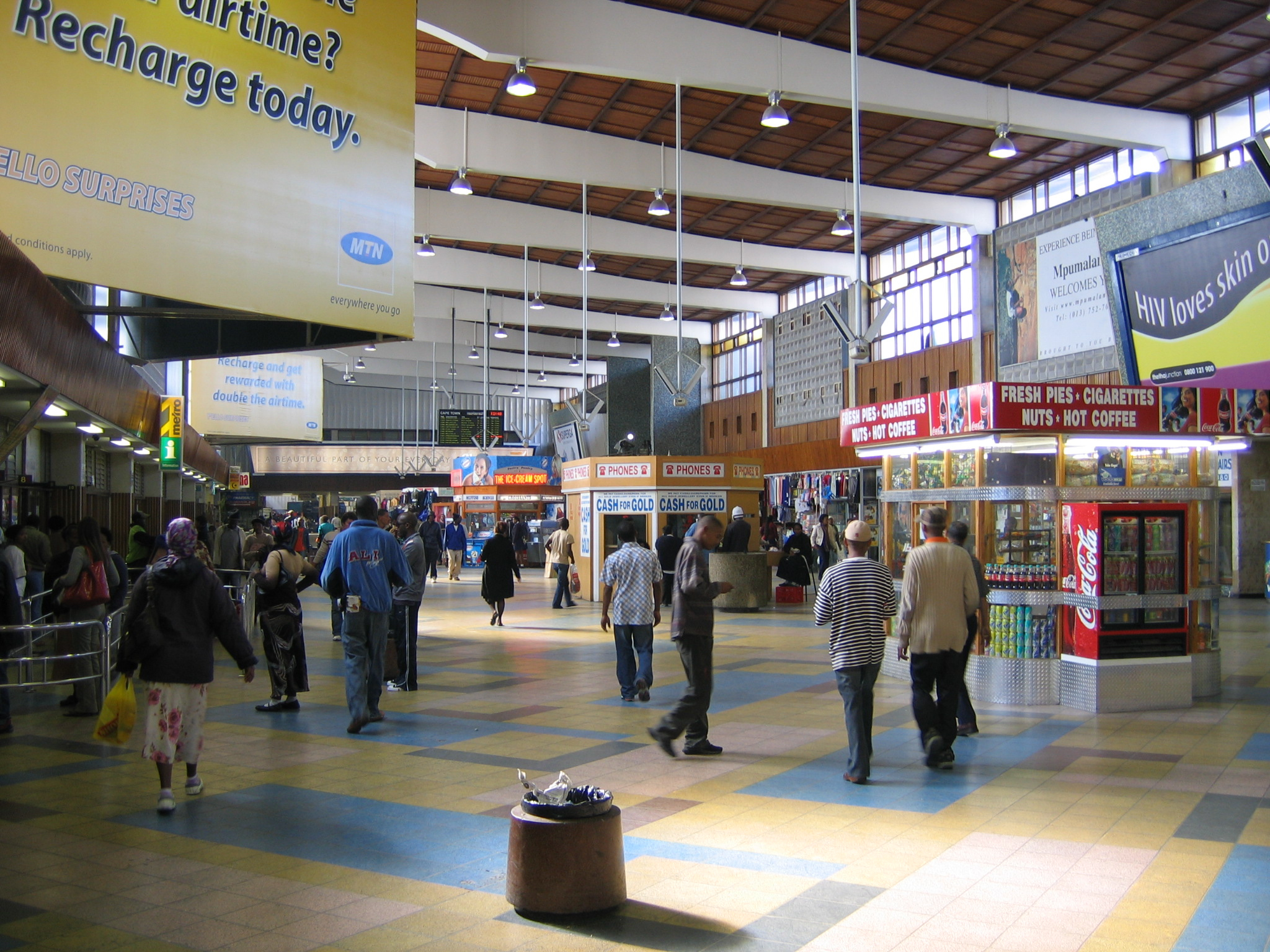 Interior of the Cape Town main train station, South Africa.